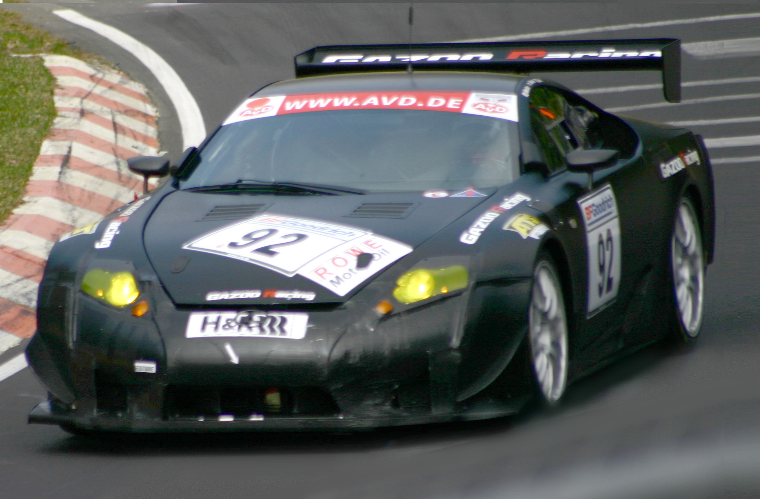 Rear Last year´s appearance: Lexus LF-A